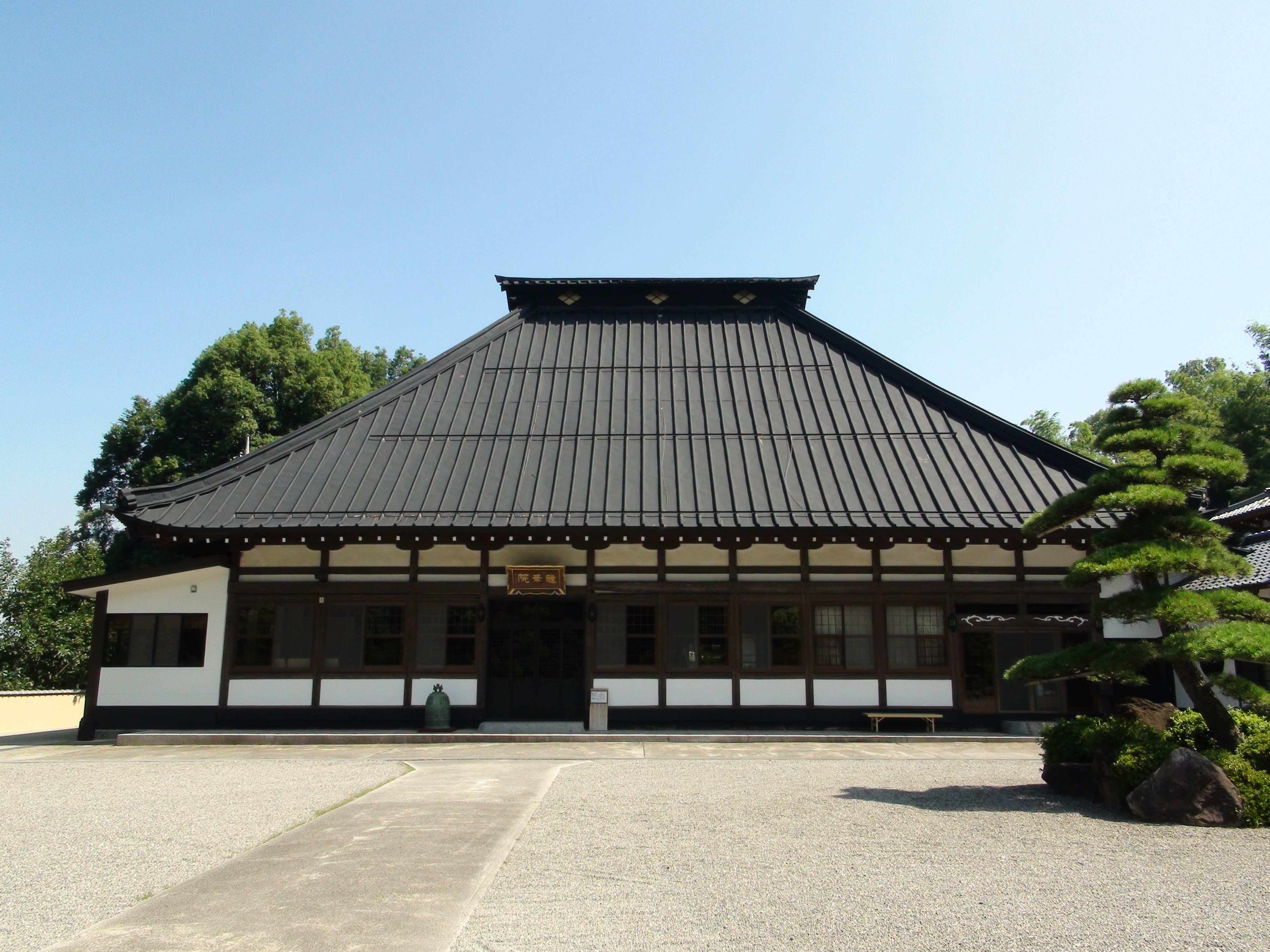 Ryugein Temple Kofu City